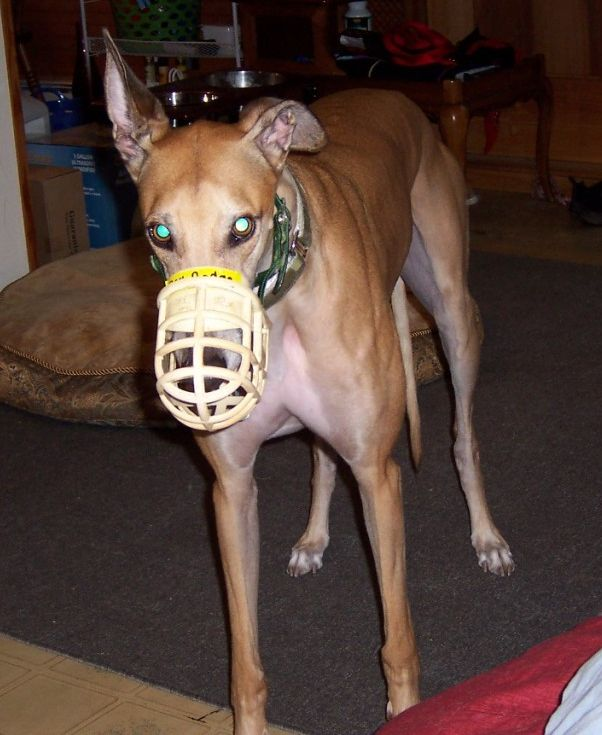 A greyhound wearing a typical American track turnout muzzle